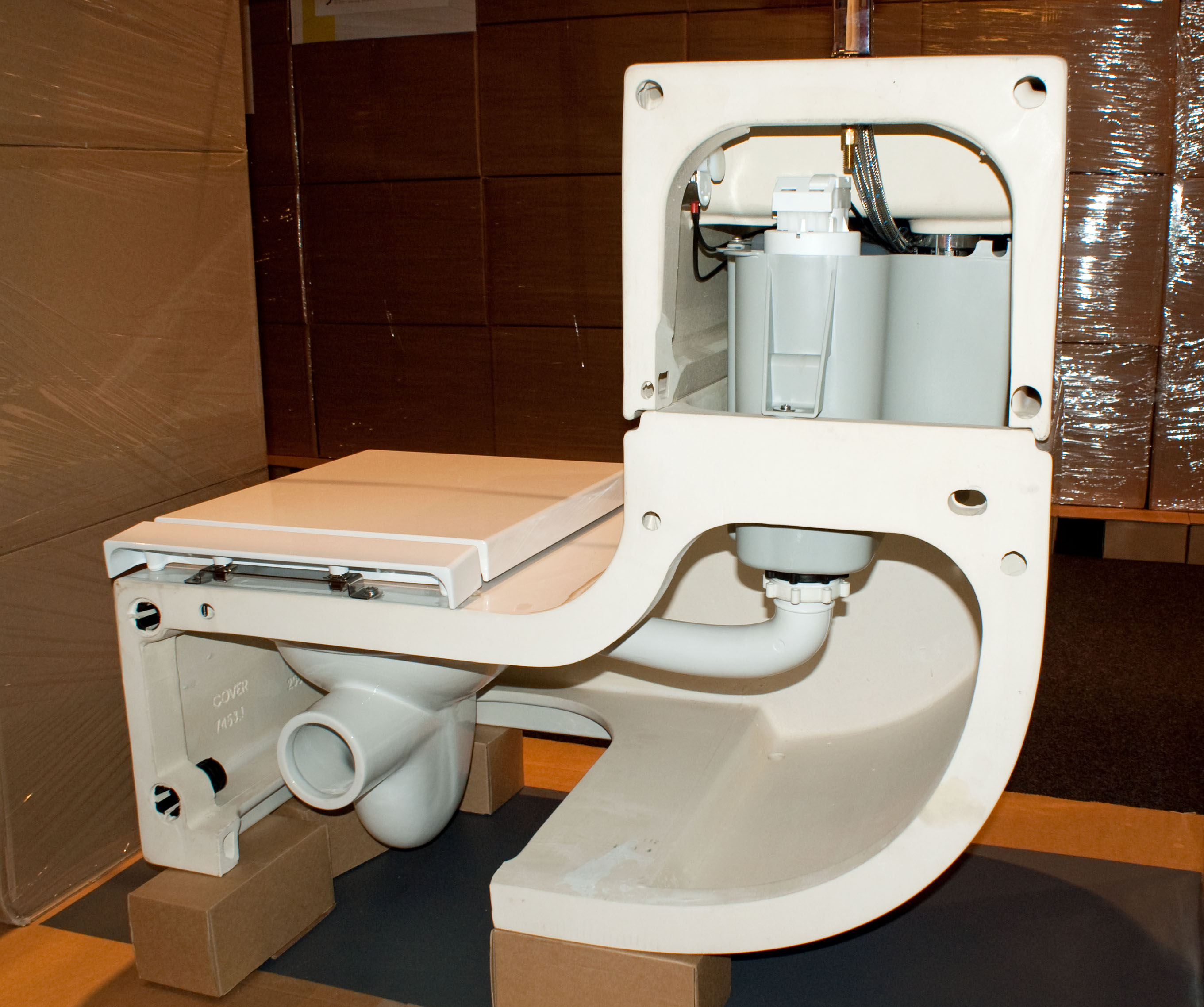 W+W (Washbasin+Watercloset) by Roca. "21 design stories" – exhibition at Institute of Industrial Design in Warsaw.